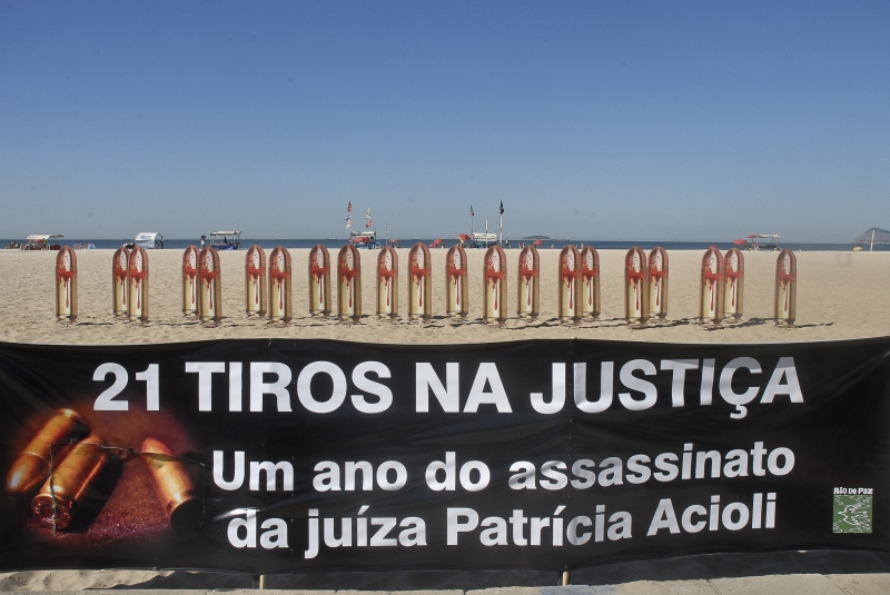 "21 shots in the Justice. In the last year the Judge Patricia Acioli was murdered."